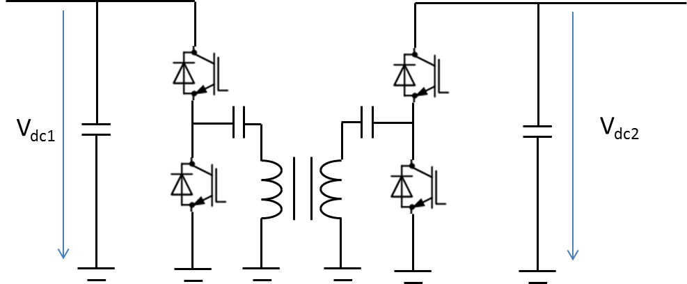 Converter DC/DC with a galvanic isolation.